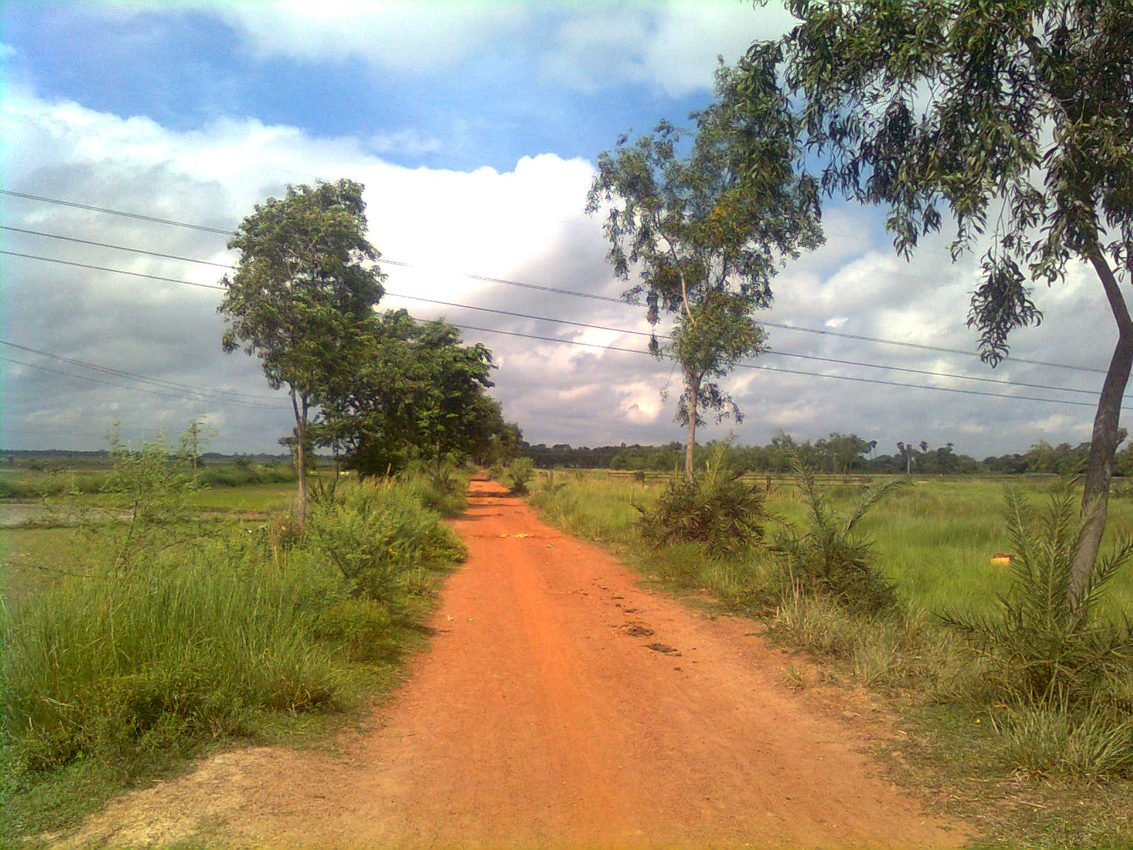 It's a typical dance saontal peoples.